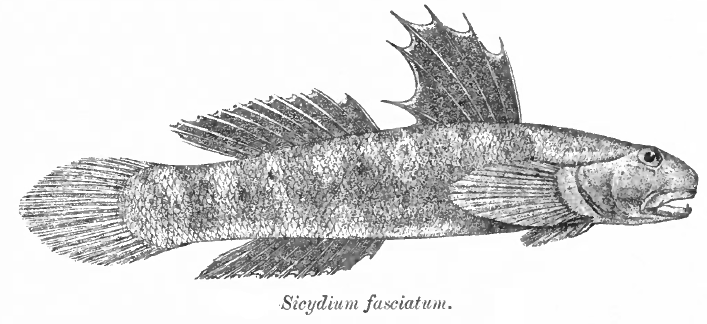 Sicydium fasciatum = Sicyopterus fasciatus (Day, 1874)